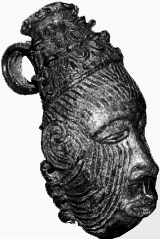 Igbo Ukwu pendant.